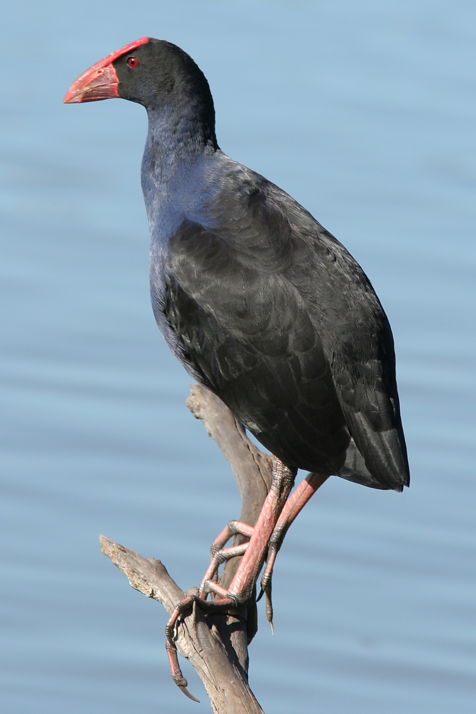 Purple Swamphen, Porphyrio porphyrio melanotus; wild bird